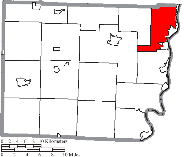 Map of the municipal and township boundaries of Belmont County, Ohio, United States, as of the 2000 census, with the location of Pease Township highlighted. Township borders are shown only in unincorporated areas in order to differentiate incorporated and unincorporated areas more clearly.